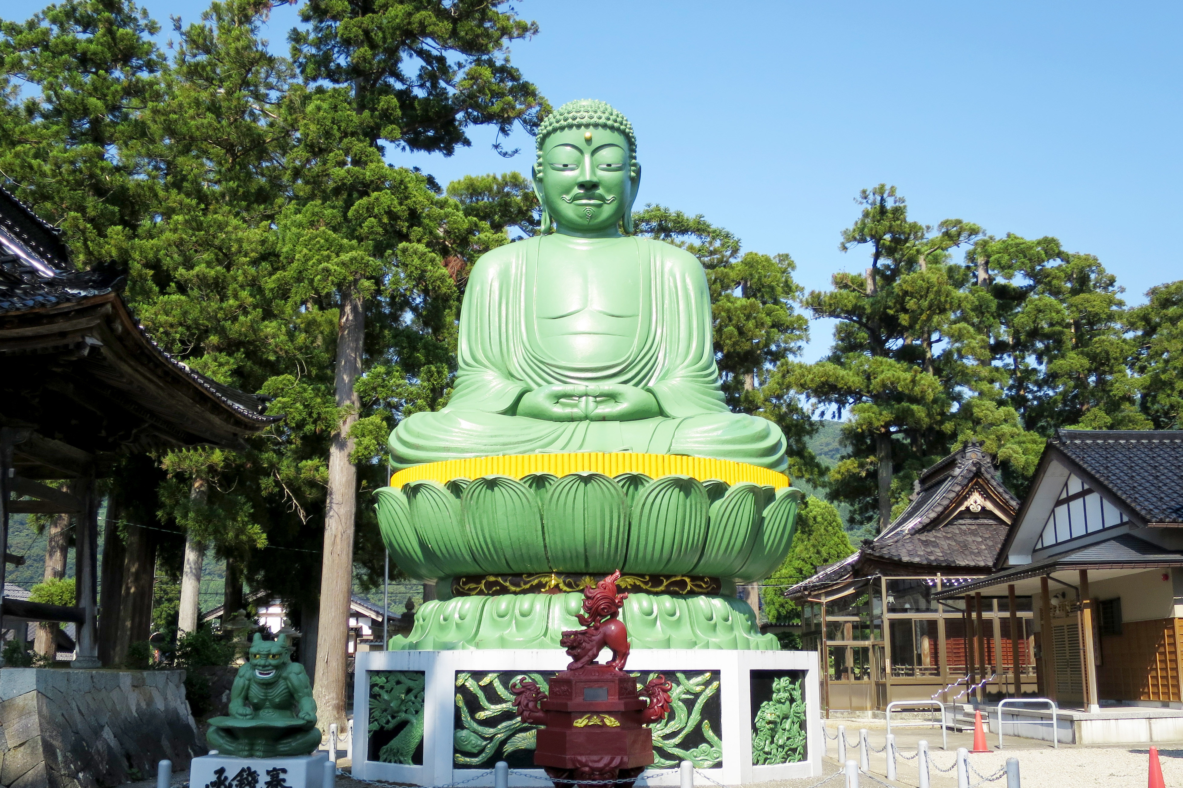 Shogawa Daibutsu (statue of Amida Nyorai), Kosho-ji